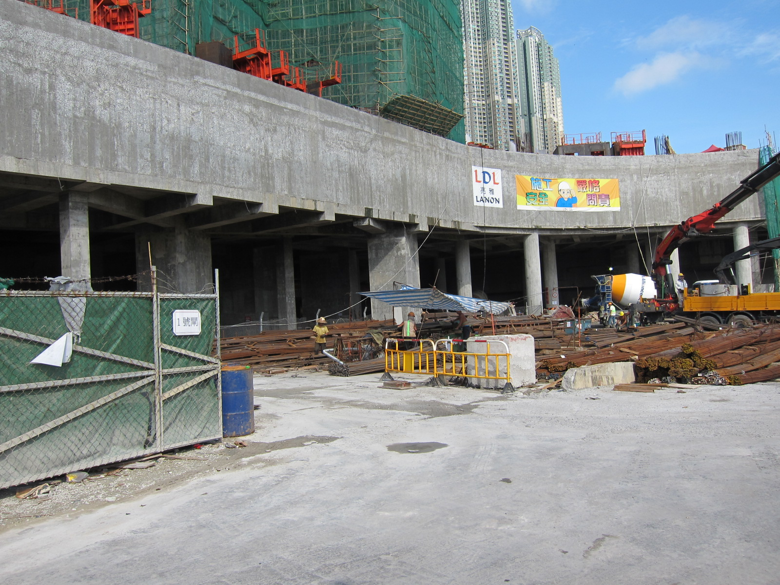 Lohas Park Phase 3